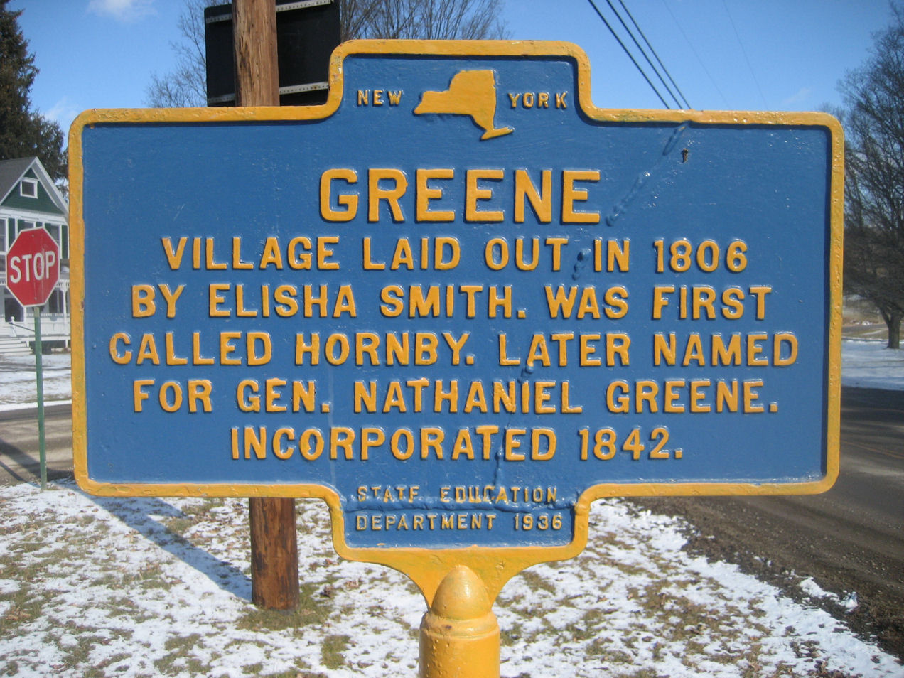 Historic marker of the village of Greene, NY. Laid out in 1806 by Elisha Smith. Greene was first called Hornby, later renamed for General Nathaniel Greene. Incorporated in 1842.